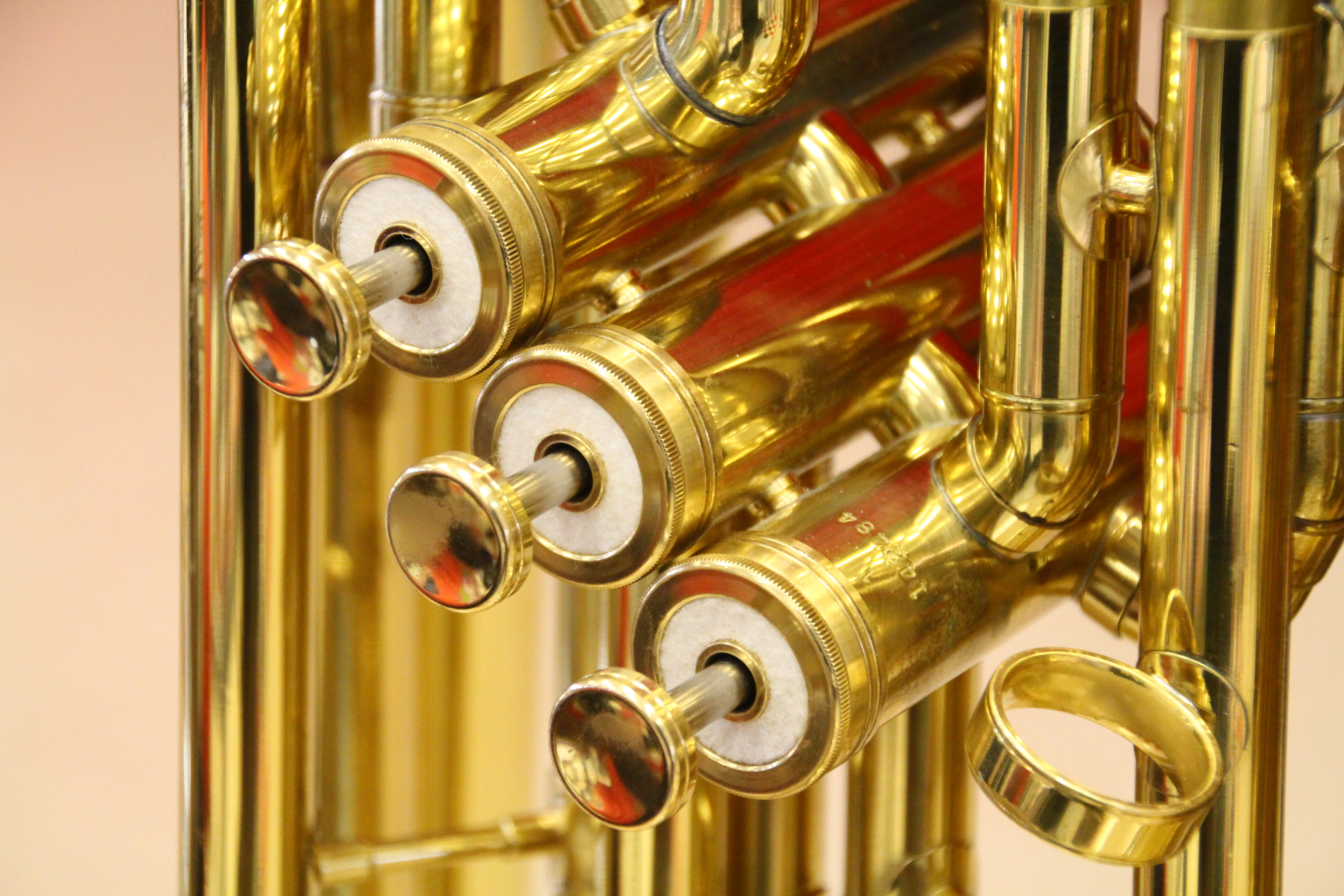 Valve keys on a brass wind instrument.